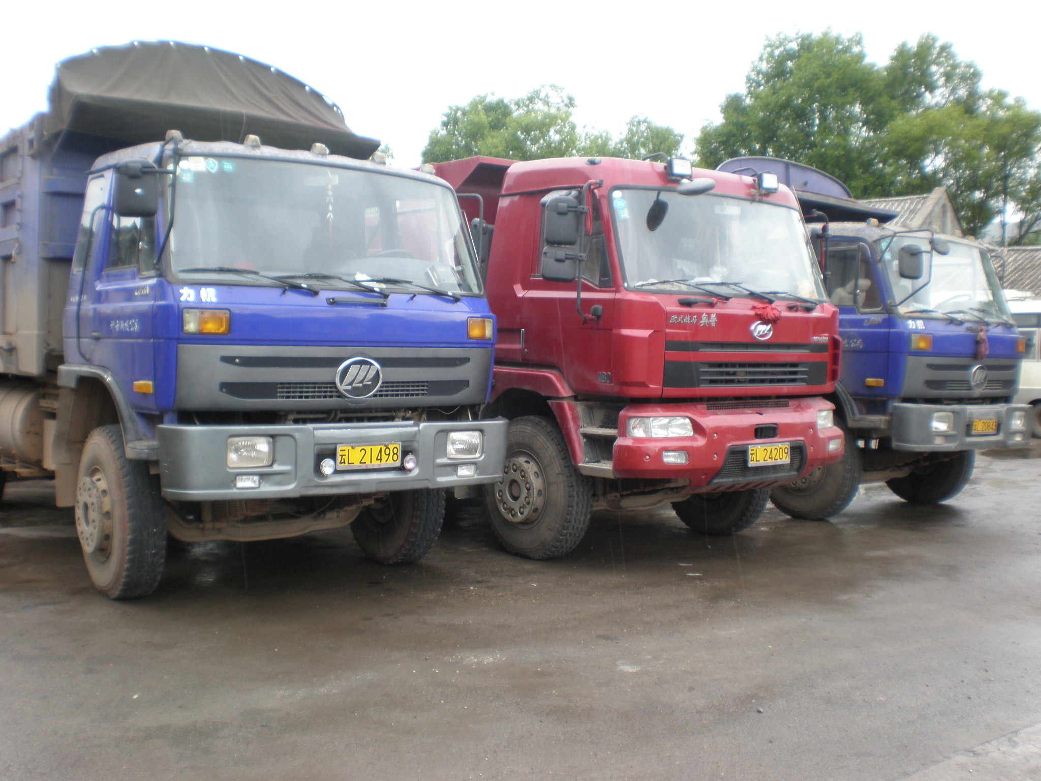 Three Lifan trucks in Yunnan, exact location unknown. Seen while traveling from Shangri-La (formerly Zhongdian) to Dali. The center one is a 180 model.